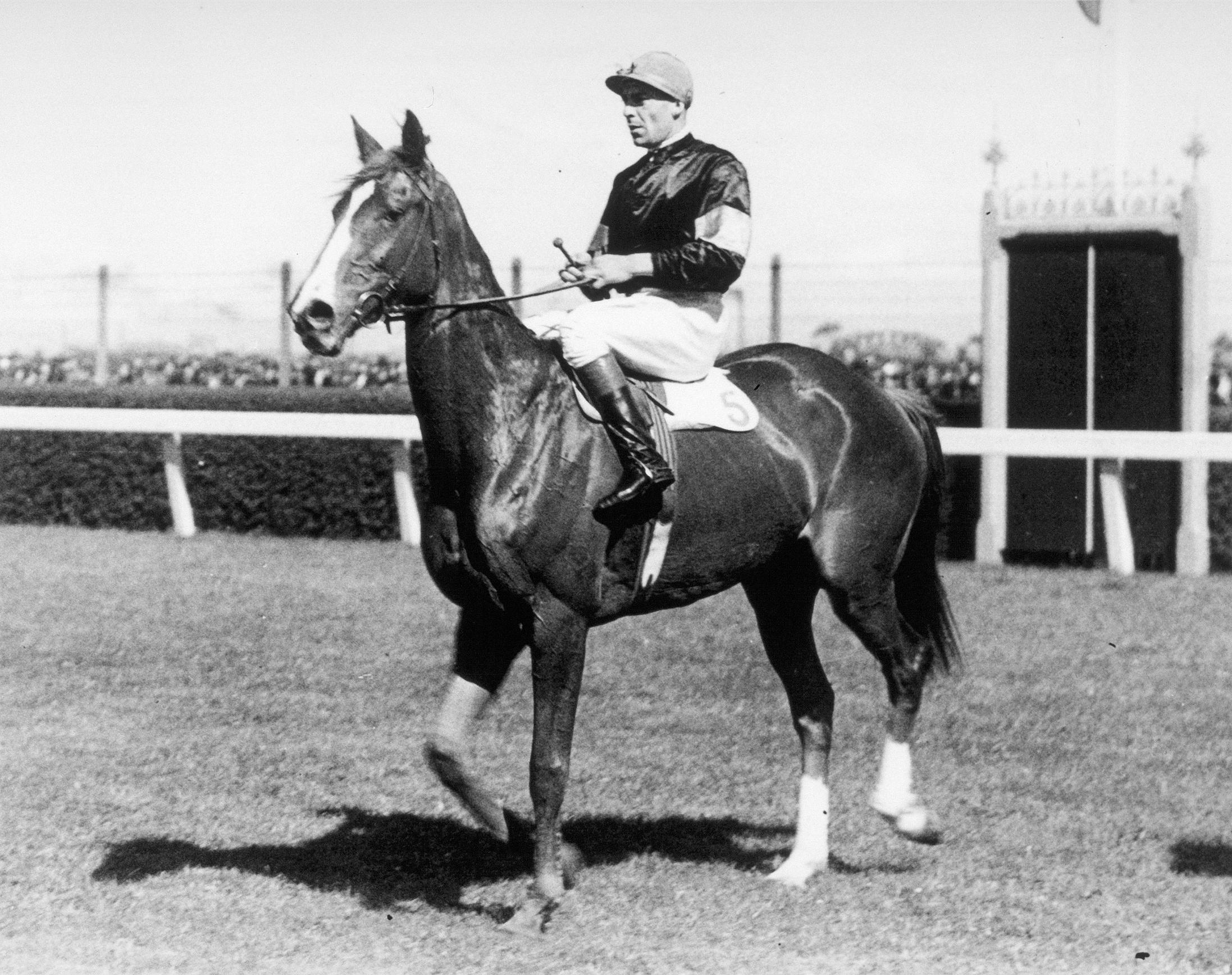 1933 Melbourne Stakes winner Rogilla with jockey Darby Munro. FAMILY PHOTO NOT COPYRIGHTED